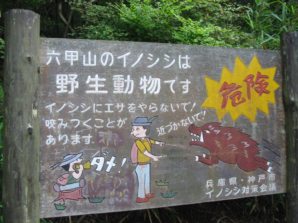 Wild Boar warning sign in Japan